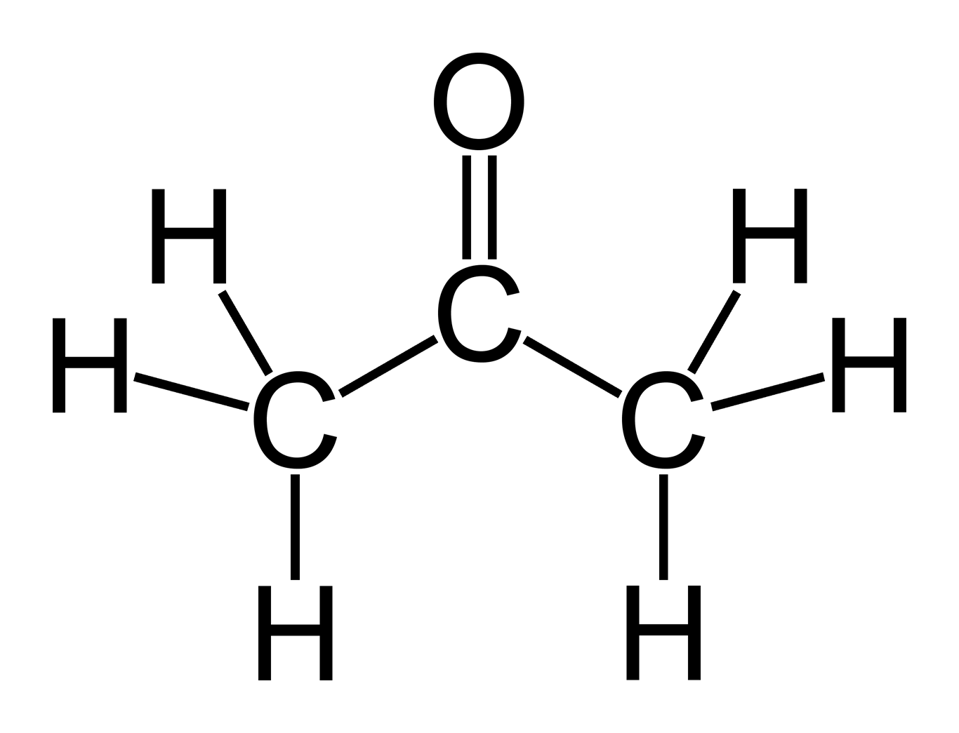 Description: Full displayed structural formula of acetone (CH3COCH3). Author, date of creation: self made by Ben Mills at 14:09, 8 March 2006 (UTC). Source: user-created image Comments: high-resolution black and white PNG; ChemDraw / Photoshop.